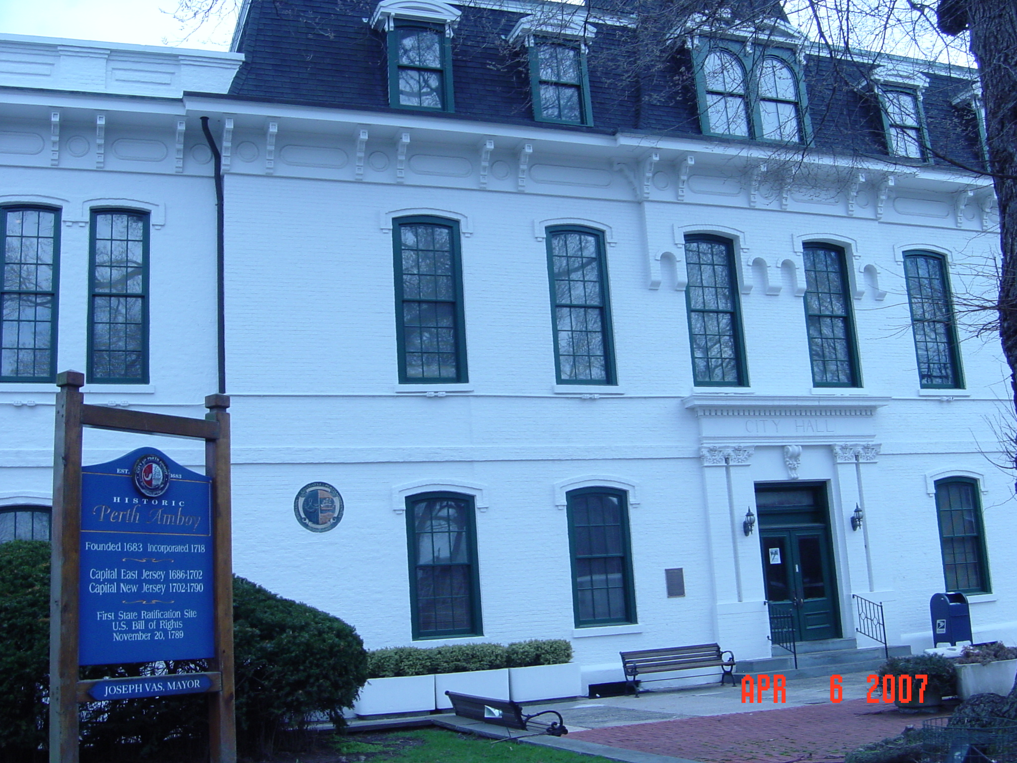 Pic of front fascade of city hall of perth amboy, NJ, USA